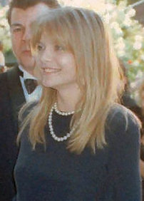 Michelle Pfeiffer at the 62nd Annual Academy Awards -cropped and enhanced from original source